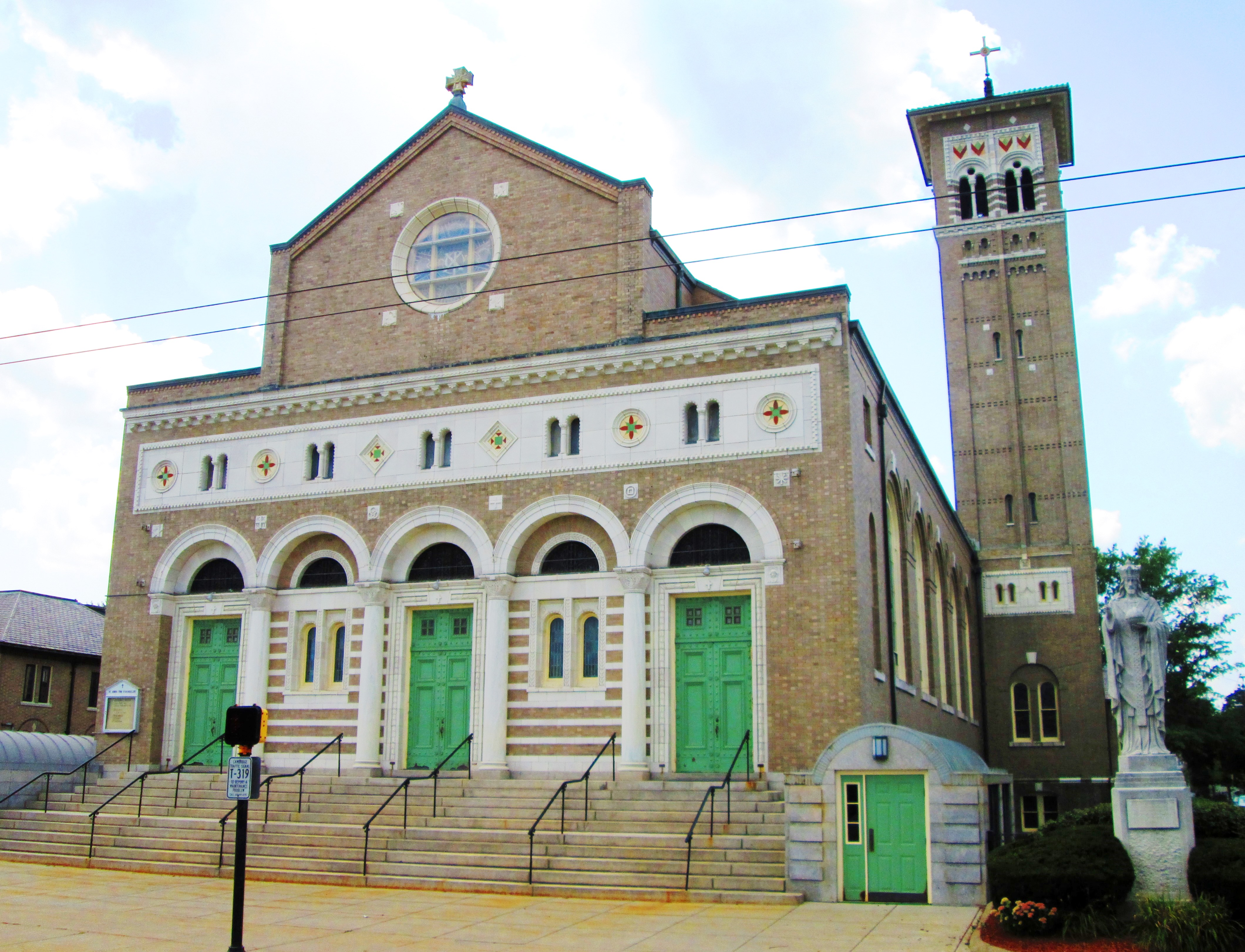 St John the Evangelist Roman Catholic Church at 2270 Massachusetts Avenue at Hollis Street in North Cambridge, Massachusetts was built in 1904 in the Romanesque Revival style and was designed by the firm of Maginnis, Walsh & Sullivan. It is part of the Roman Catholic Archdiocese of Boston, and is listed on the National Register of Historic Places.